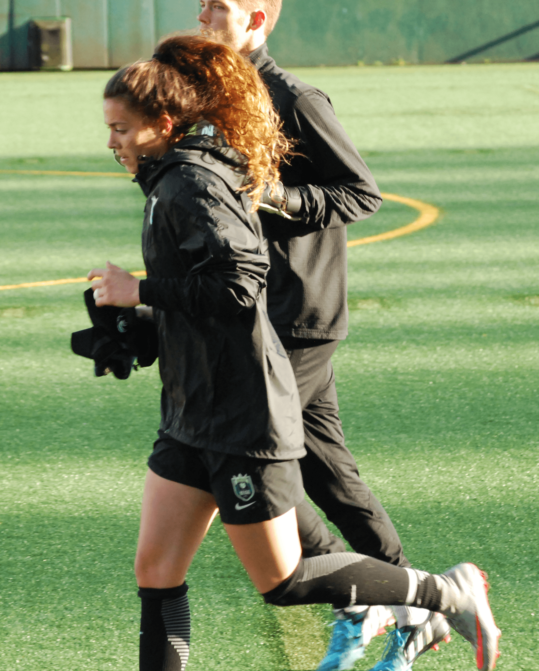 Madalyn Schiffel, Seattle Reign FC vs Houston Dash, April 22, 2017, Memorial Stadium, Seattle, WA